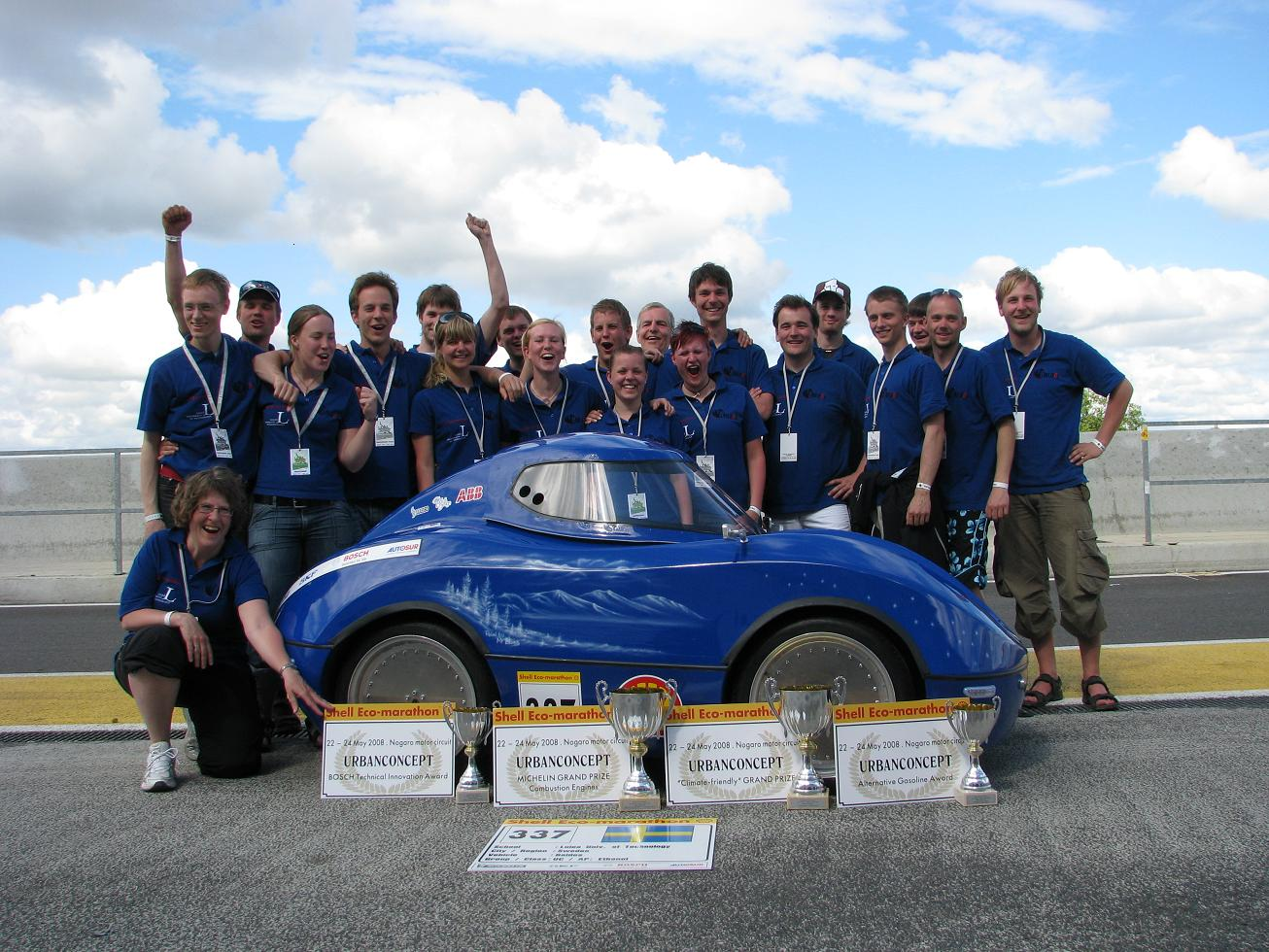 Team Baldos at the Shell eco-marathon competition